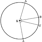 Central angles